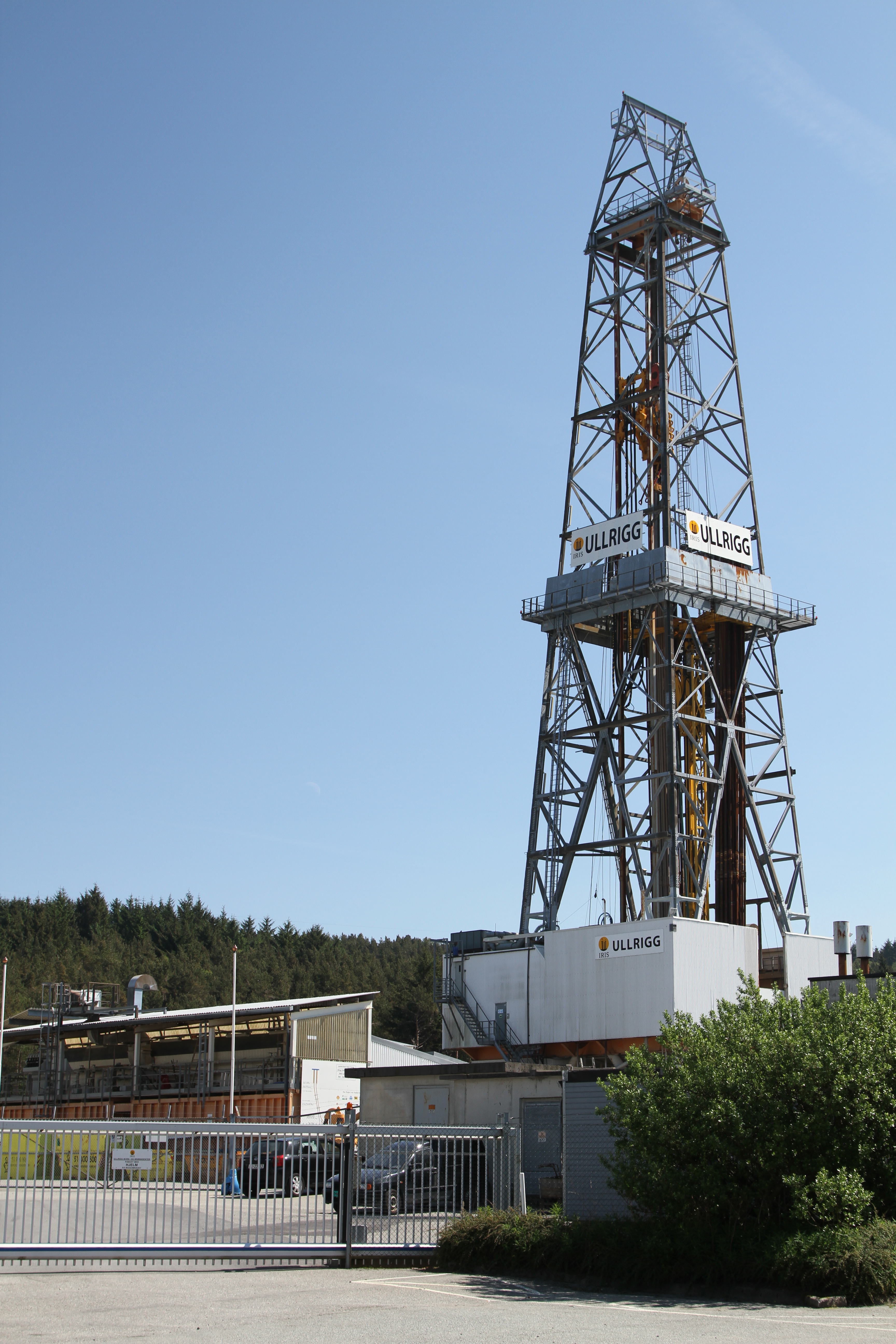 Ullrigg at International Research Institute Stavanger, Norway